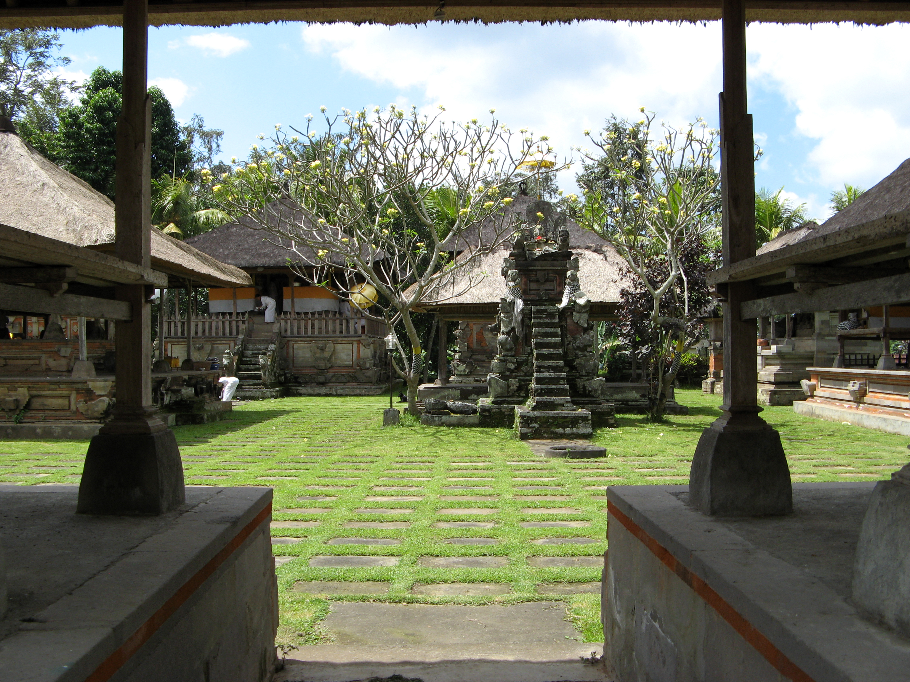 In the background are shrines and other buildings, that surround a Seat (the very tall throne, center, with stairs leading up) for Ganesha. Most temples in Bali contain such a throne, either for Ganesh or for some other god, which may or may not be occupied by an actual image at the top.